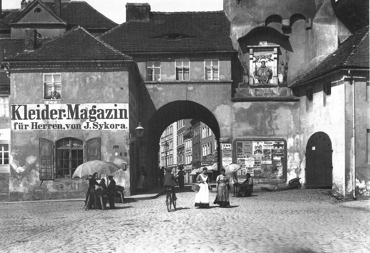 Bautzen; View through the gate "Reichentor" before 1910